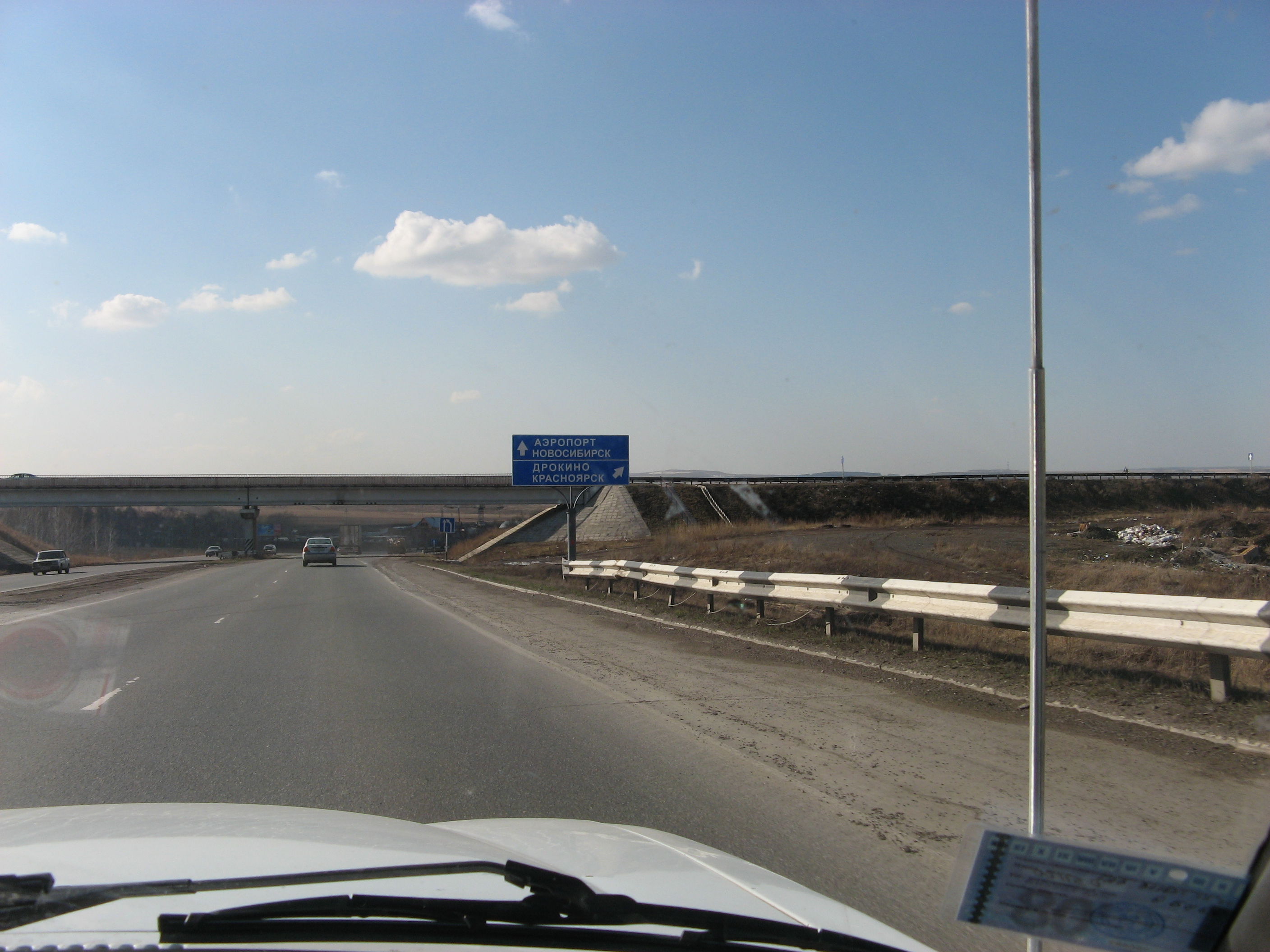 The sign says "Airport, Novosibirsk" and below "Drokino, Krasnoyarsk"